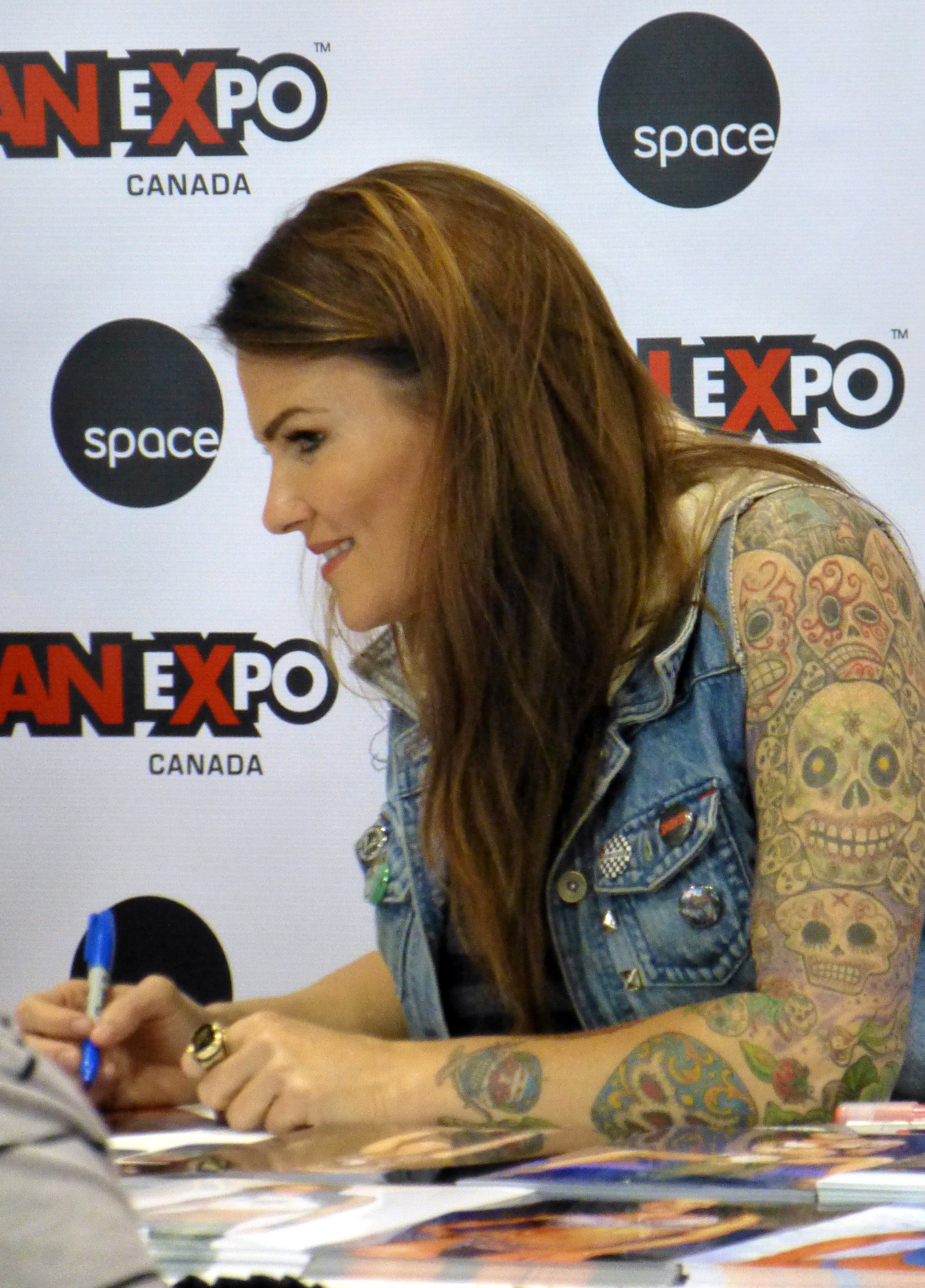 Also known as Lita in the WWE 2014 Fan Expo Canada